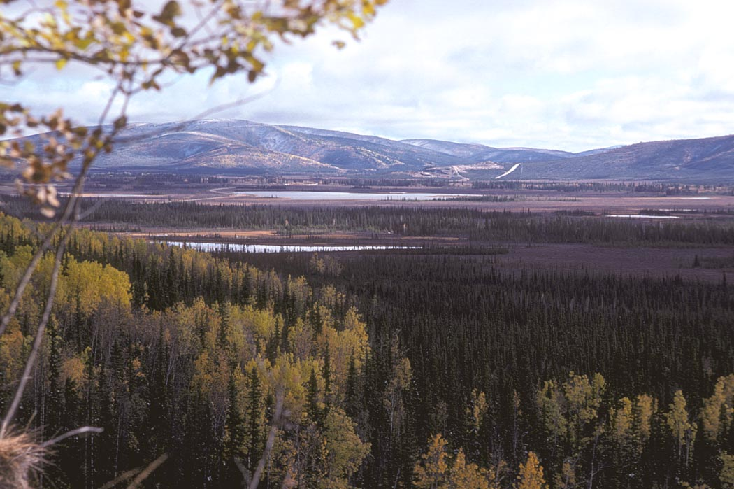 Scenic View of Tetlin NWR